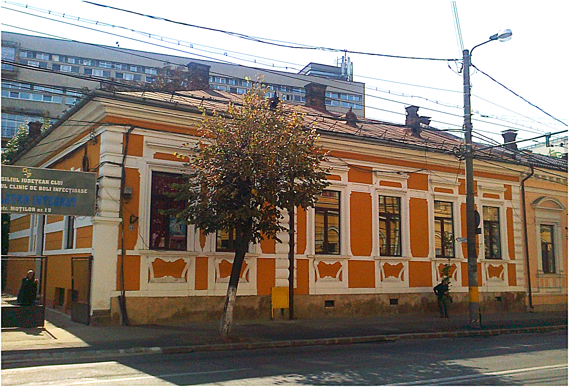 Óvári house in Cluj/Kolozsvár (Monostori út 15 - now: Str. Moților 19)